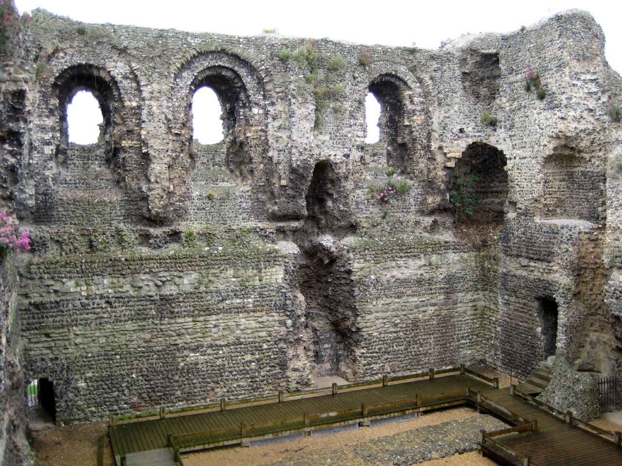 Summary:Canterbury Castle Author:Teddy Sipaseuth